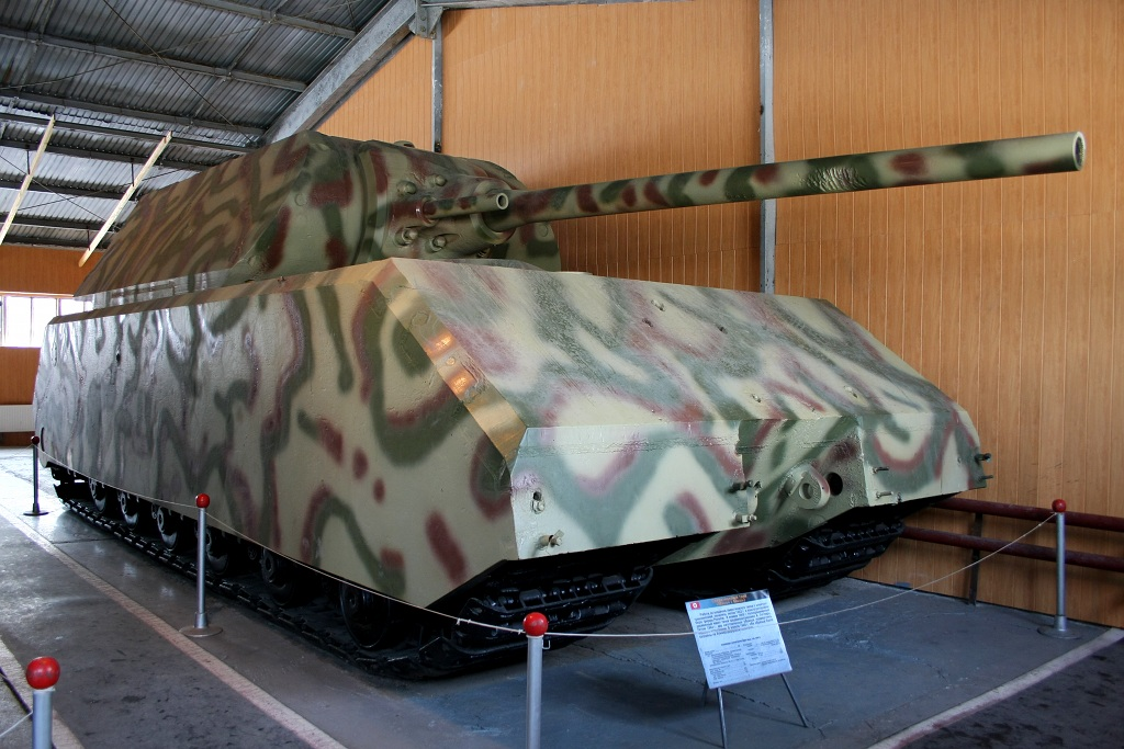 Panzerkampfwagen «Maus» at the Kubinka Tank Museum